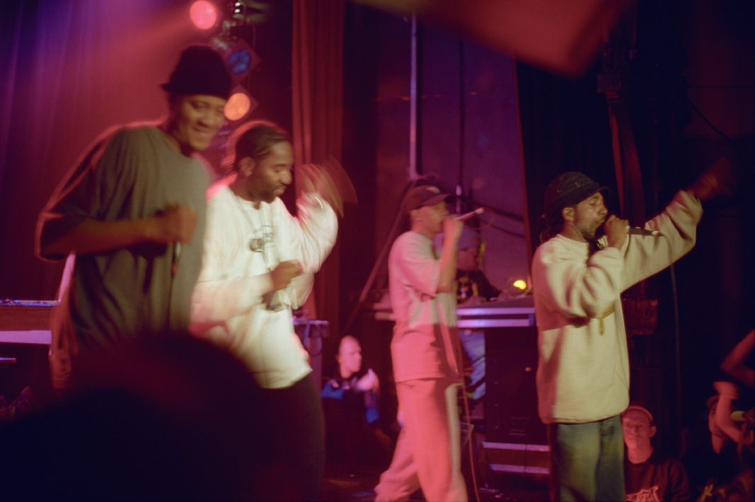 Jurassic 5 in Hamburg/Germany 2002